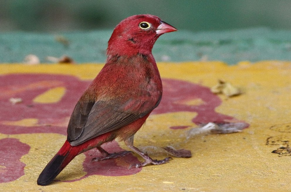 A male Red-billed Firefinch in Gambia.